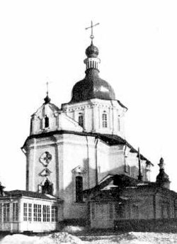 3-prelates Church in Kiev